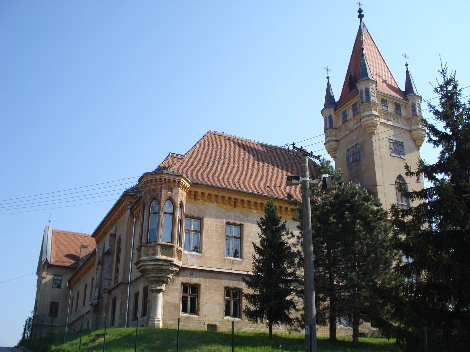 Feštetić castle in Pribislavec (Croatia) - southwest view